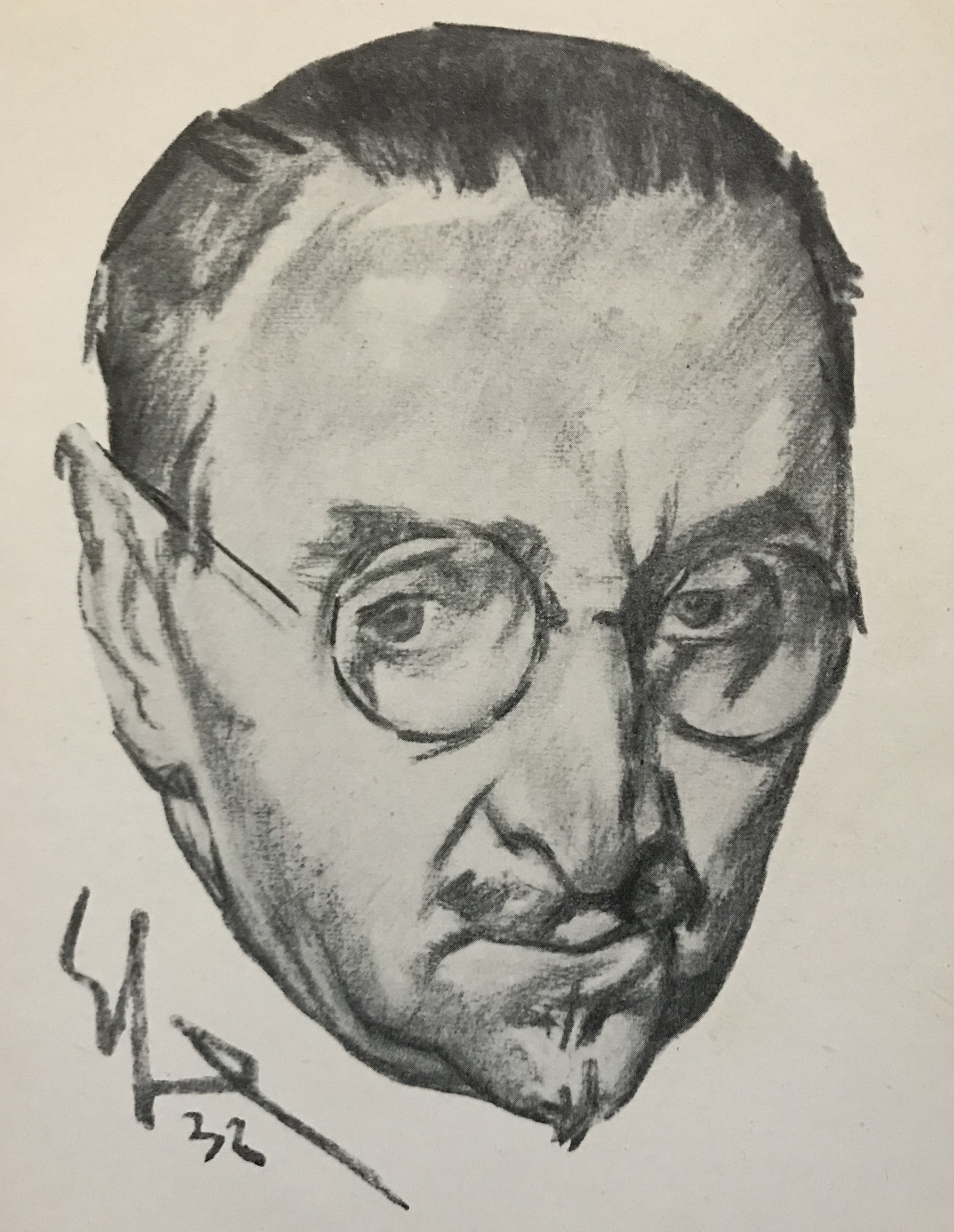 Portrait Drawing of the Sculptor Libero Andreotti